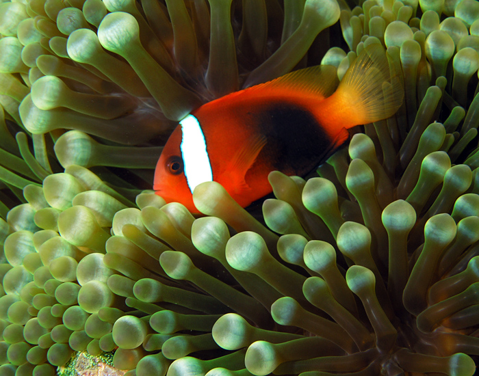 Cinnamon clownfish (Amphiprion melanopus) in a bubble anemeone from East Timor.